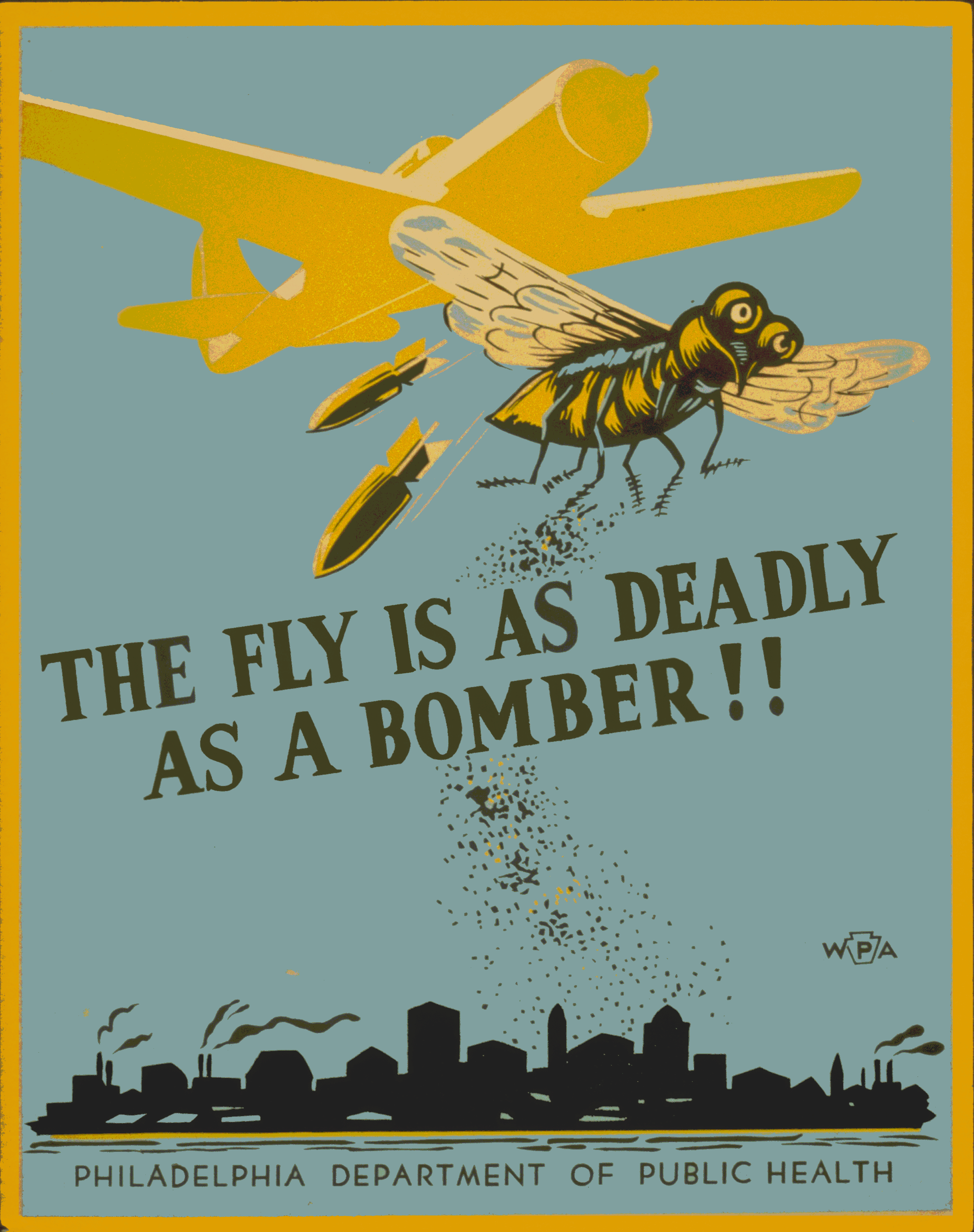 "The fly is as deadly as a bomber!!" by Robert Muchley, poster for Poster for Philadelphia Department of Health warning of potential health risks from exposure to flies.